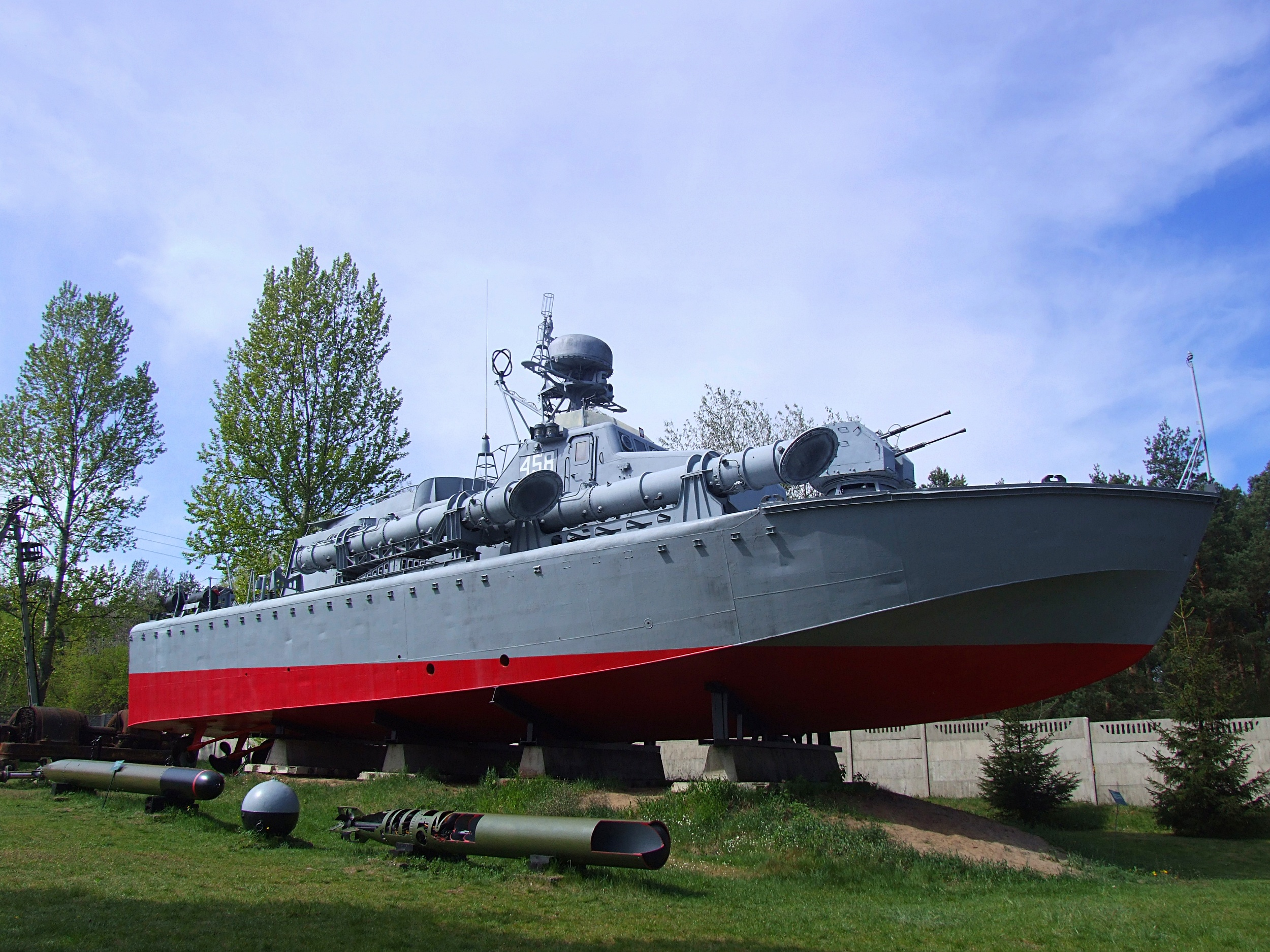 This picture was taken in The White Eagle Museum in Skarżysko-Kamienna